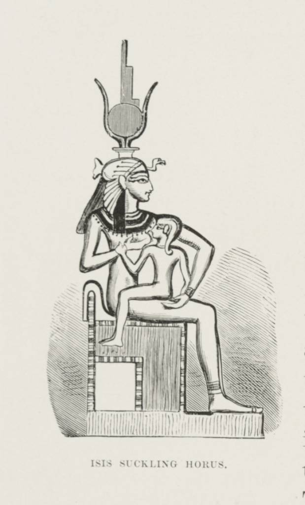 Drawing of Isis suckling Horus, in ancient Egyptian style.